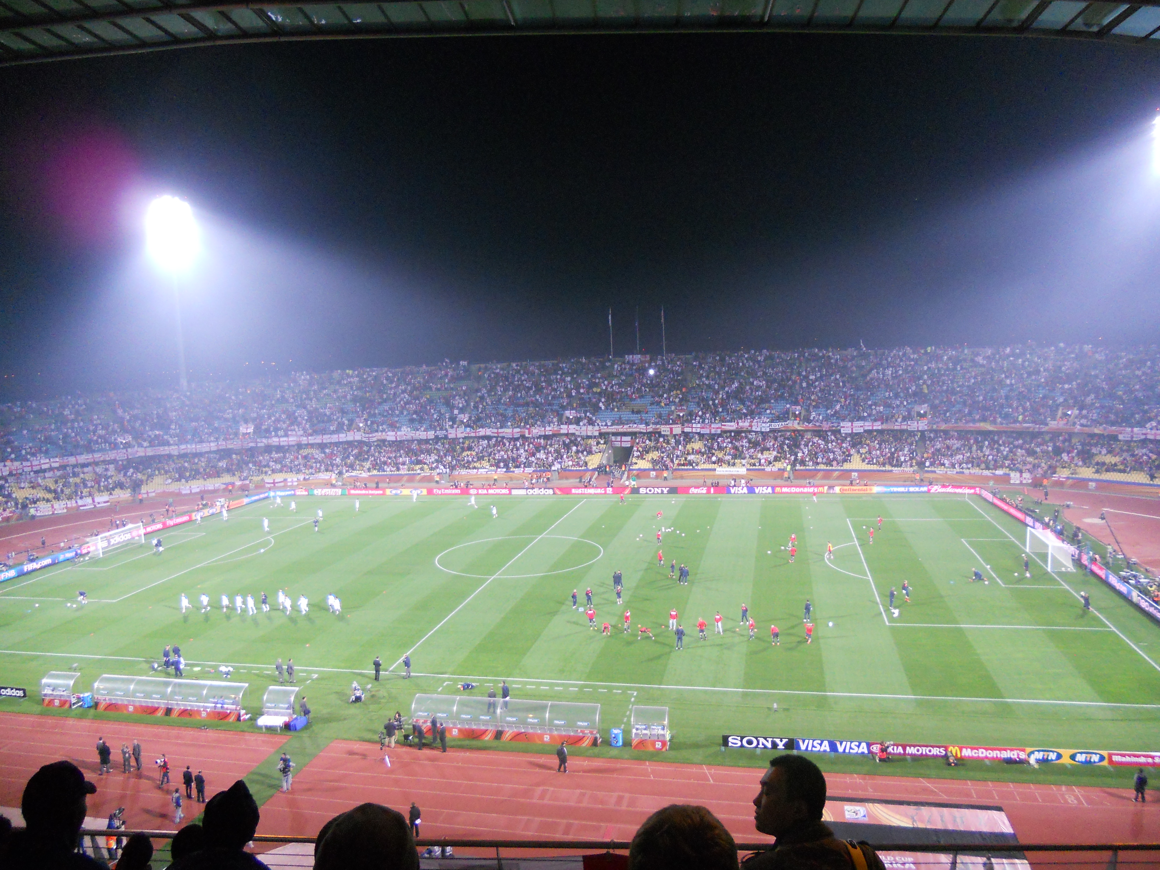 Teams training before the kick-off of the game between England and USA at FIFA World Cup 2010, 12 June 2010, Royal Bafokeng Stadium, Rustenburg